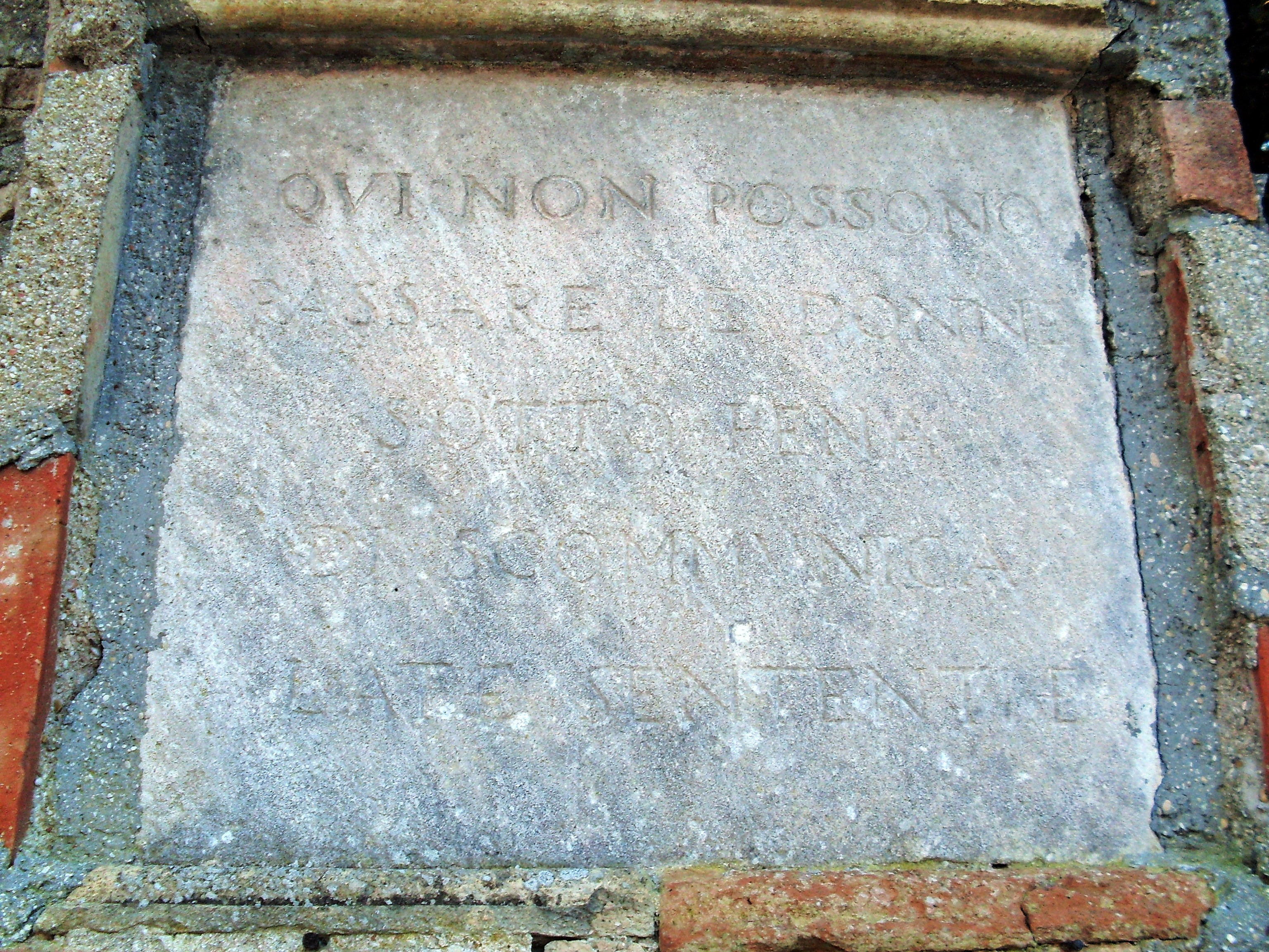 AN Monte Conero Convento antica scritta clausura